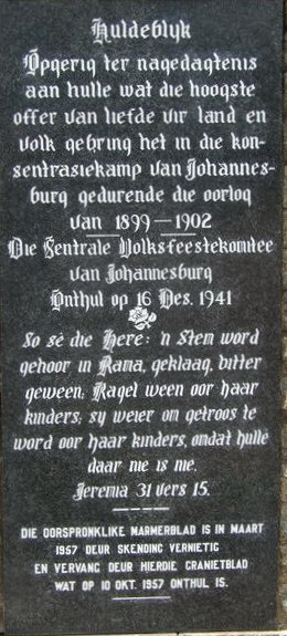 This plaque was erected to commemorate the 716 deaths in the British Concentration Camp at Turffontein and buried at Suideroord.